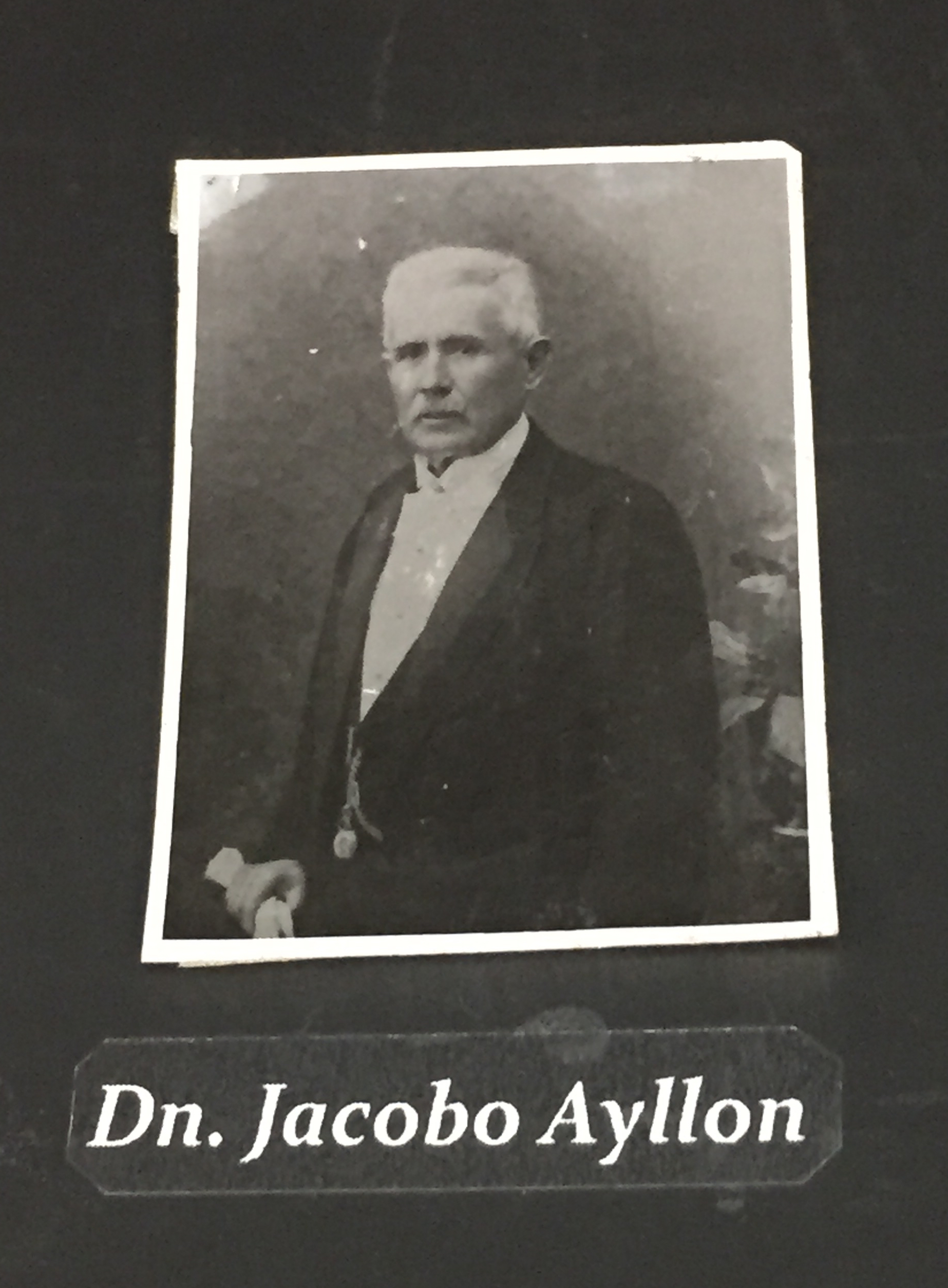 Jacobo Ayllon (or Aillón), Bolivian industry tycoon in the 19th century.